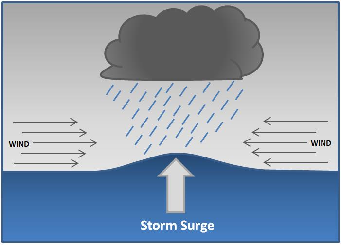 A diagram of the mechanics of a storm surge.